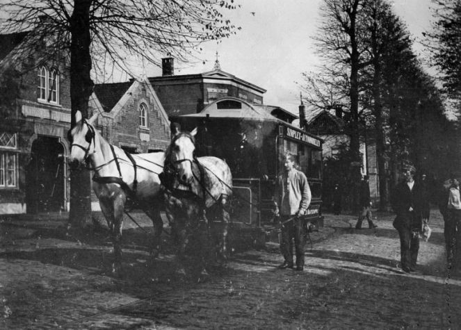 Postcard of a Dutch Horsecar (Leiden) from 1899.